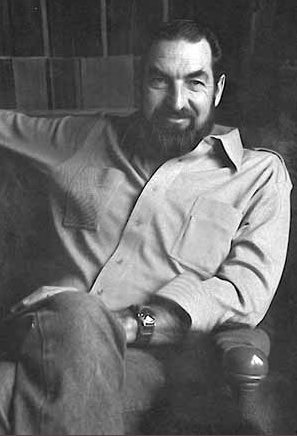 A circa 1975 photograph of artist Frank D. Hagel. Source U.S. Department of State